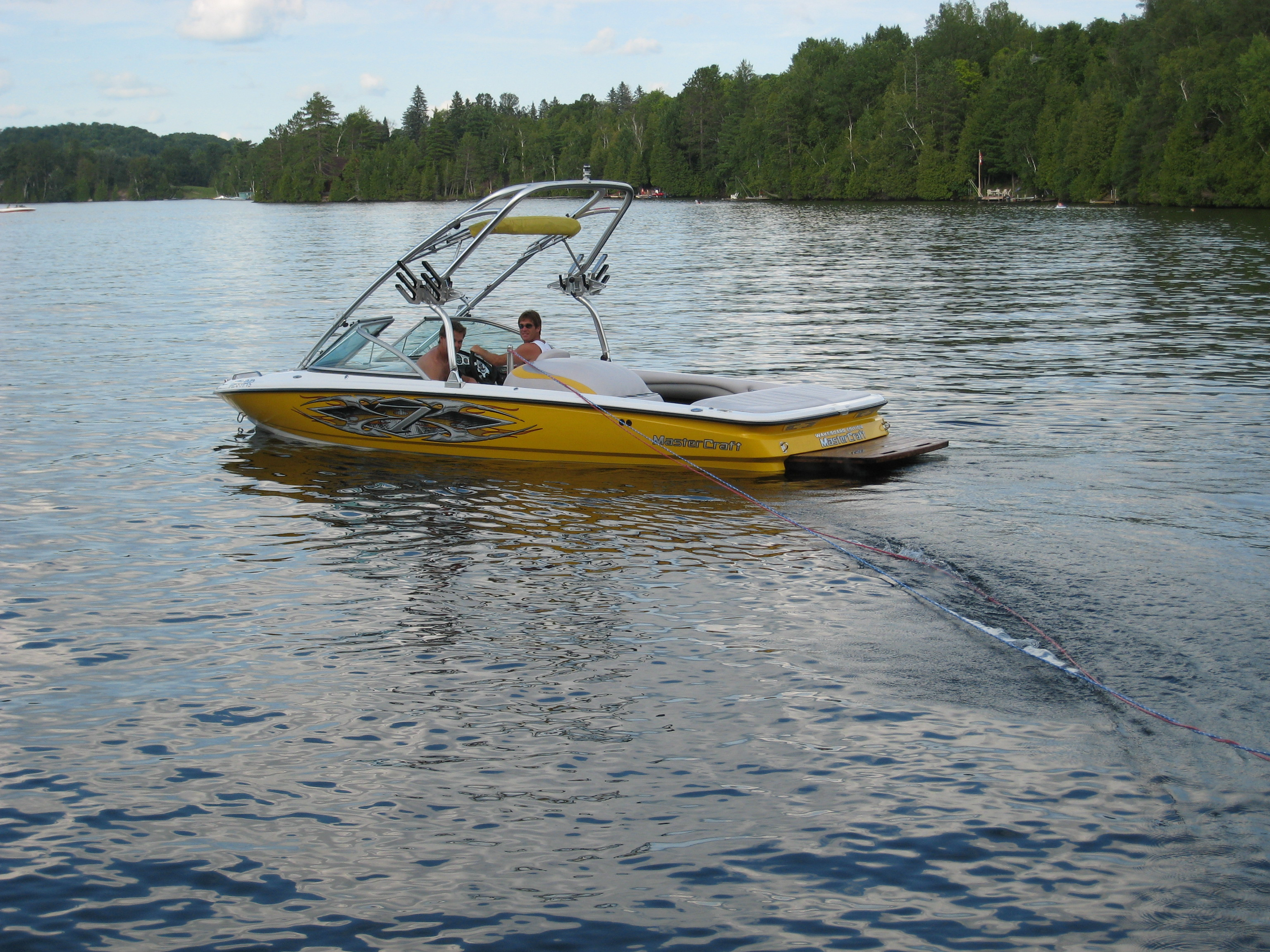 Wakeboarder